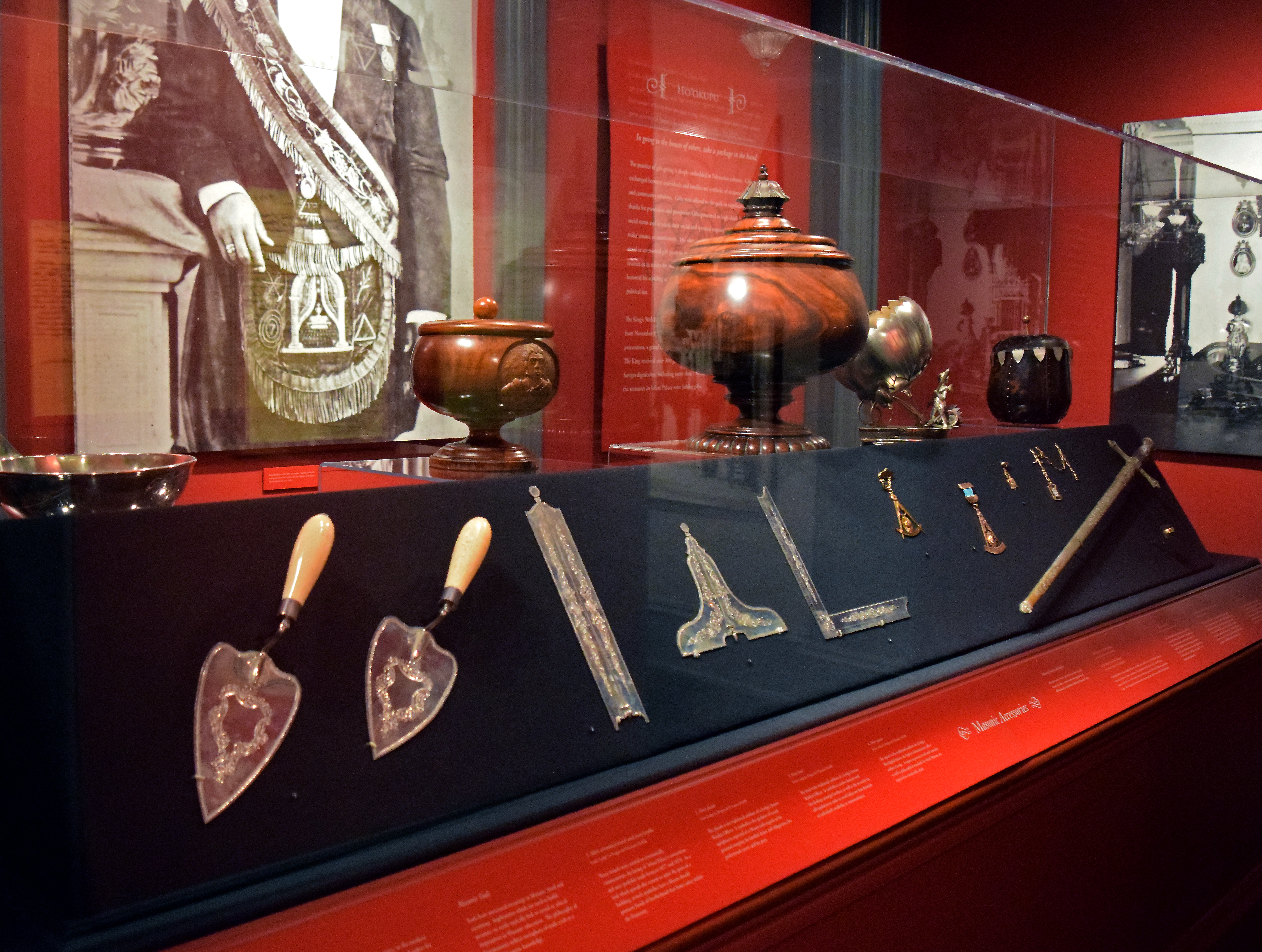 Masonic Tools Iolani Palace